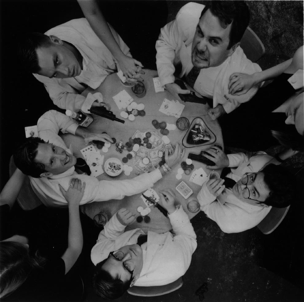 Poker photo of band